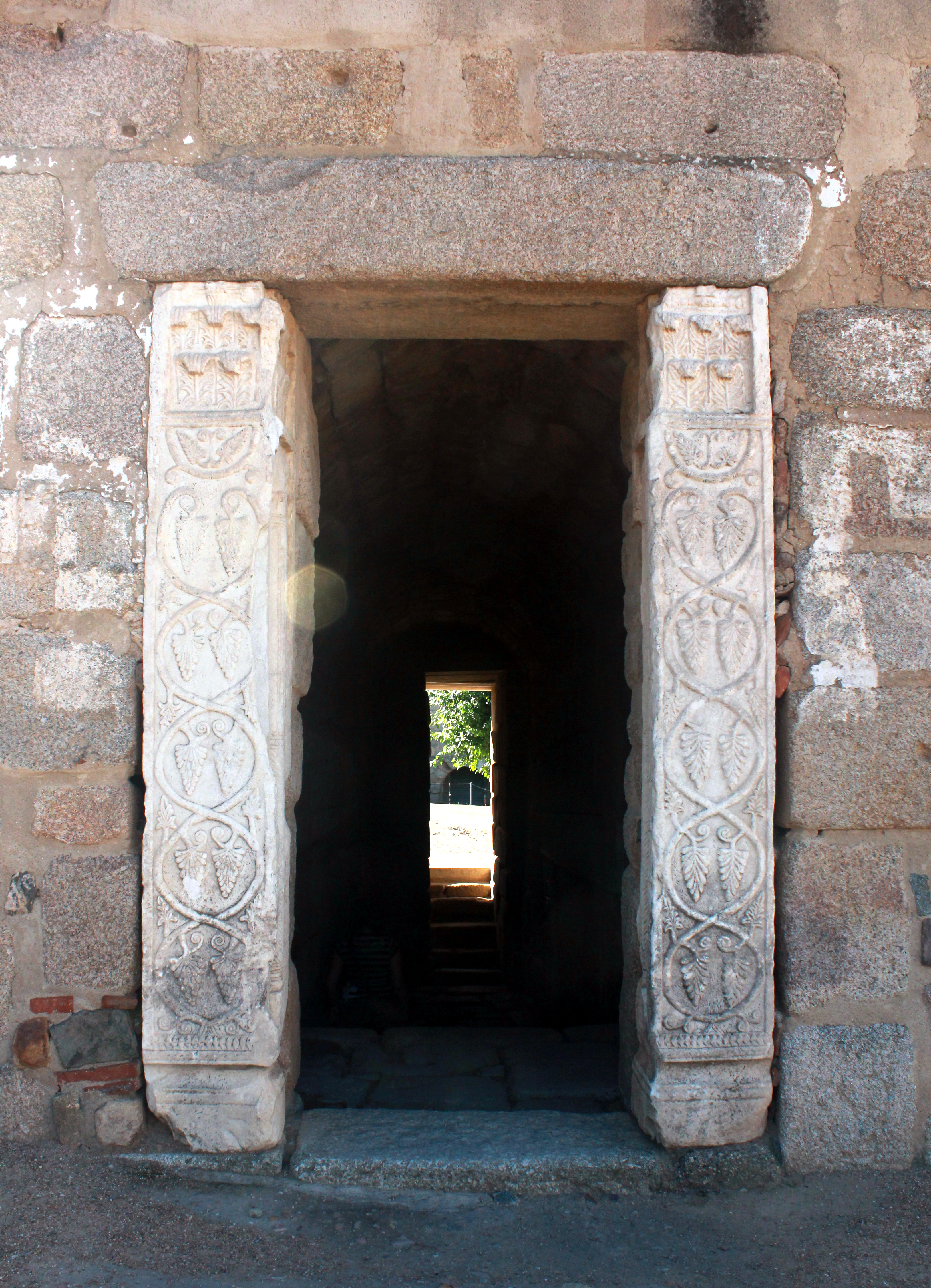 Entrance to the cistern of the Alcazaba of Merida, Spain.